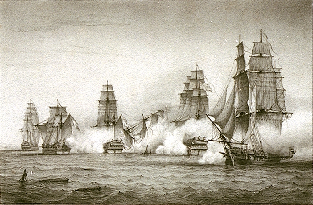 Fight between the warship the Formidable commanded by Captain Troude, and the English vessels the Cesar, the Venerable, the Superbe and the frigate Thames on 12 July 1801 at 2 leagues South-East of the island San Pedro near Cadiz